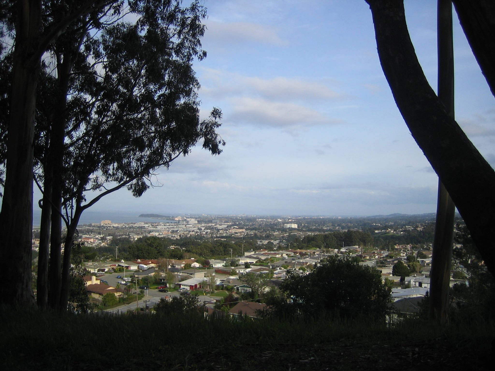 Millbrae, California, as viewed from Junipero Serra Park in San Bruno.